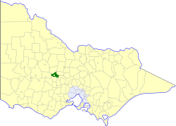 Location of the Shire of Tullaroop within Victoria.